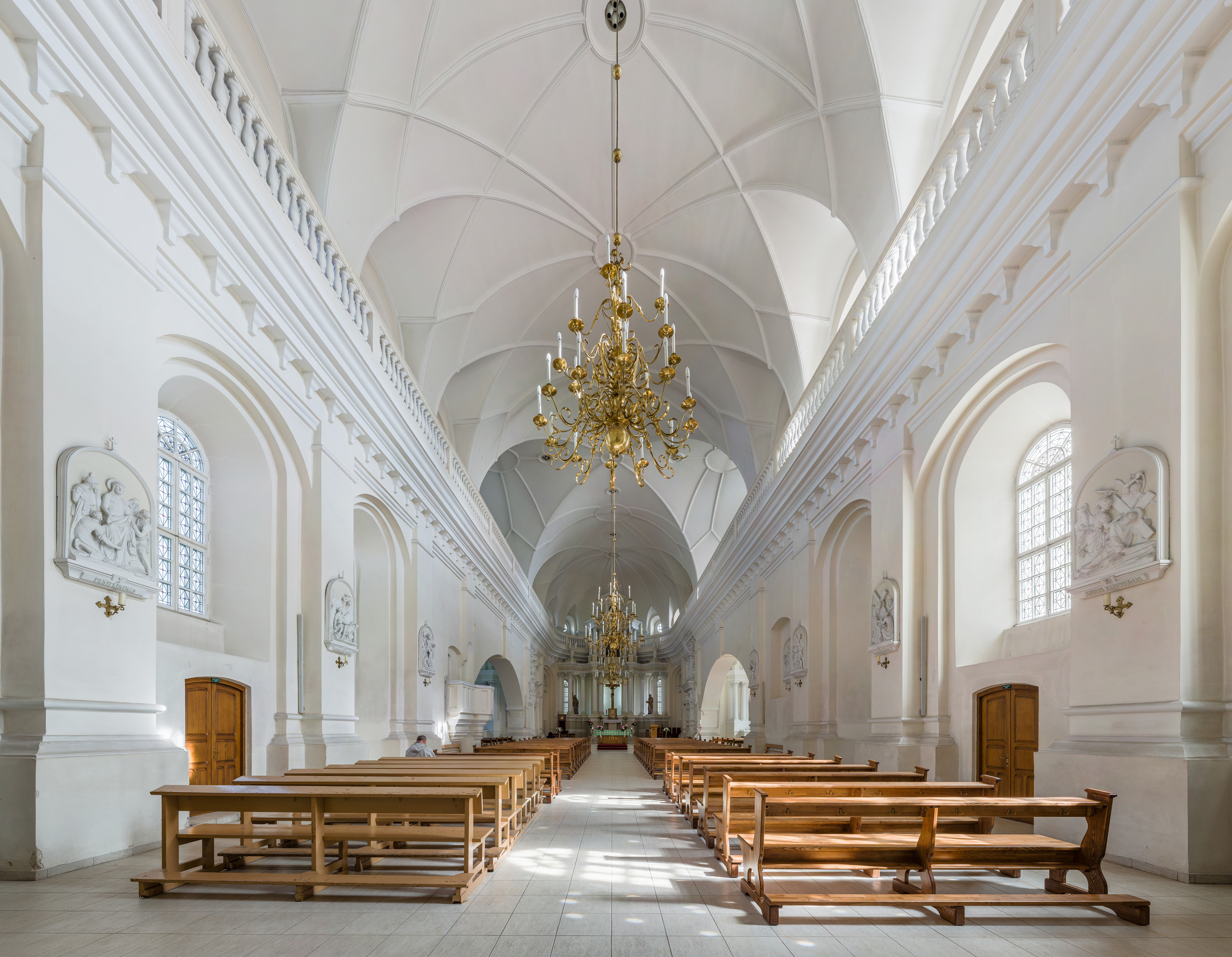 The interior of Šiauliai Cathedral looking east in Šiauliai, Lithuania.